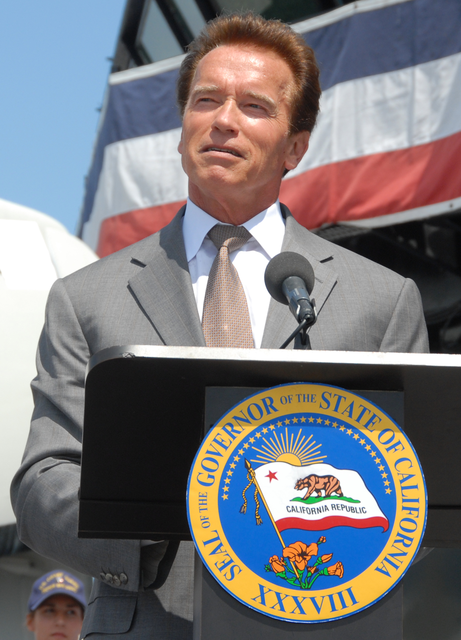 California Governor Arnold Schwarzenegger speaking about "Operation Welcome" aboard the USS Midway in San Diego California in June 2010.